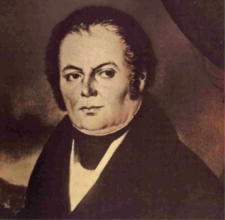 Master butcher Johann Georg Lahner, the originator of the Viennese sausage in Vienna / Austria / Europe